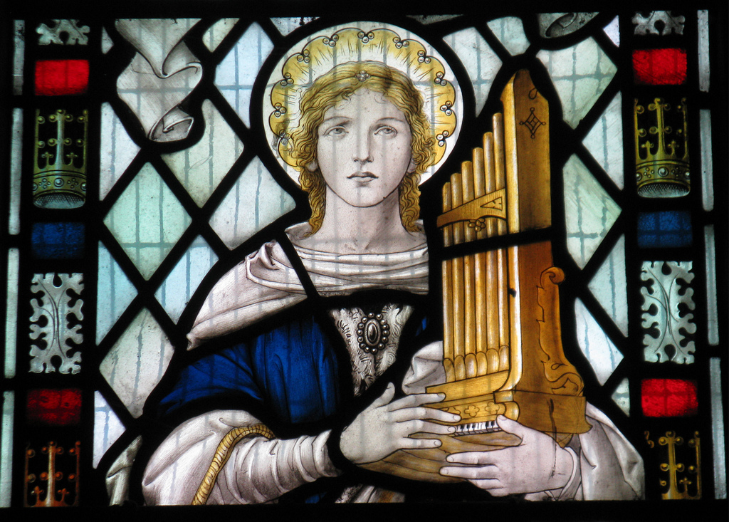 Saint Cecilia in a window in the church of St Mary The Virgin in Little Wymondley in Hertfordshire.